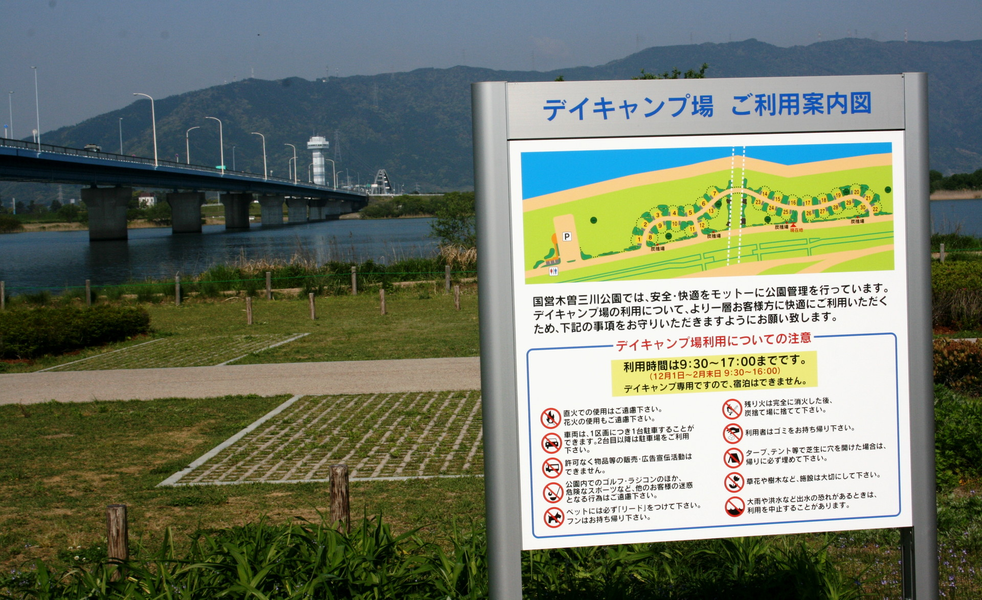 Tatsuta Ohashi and campsite in Aisai, Aichi prefecture, Japan.